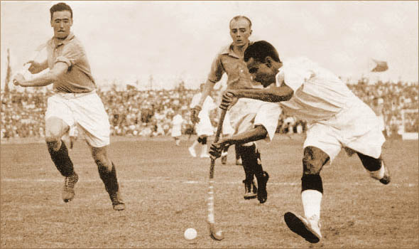 Dhyan Chand with the ball vs. France in the 1936 Olympic semi-finals